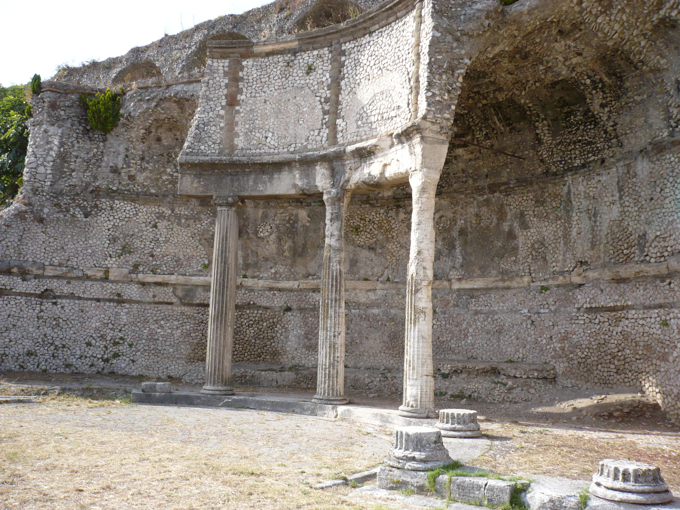 Ruins of the Sanctuary of Fortuna Primigenia, Palestrina